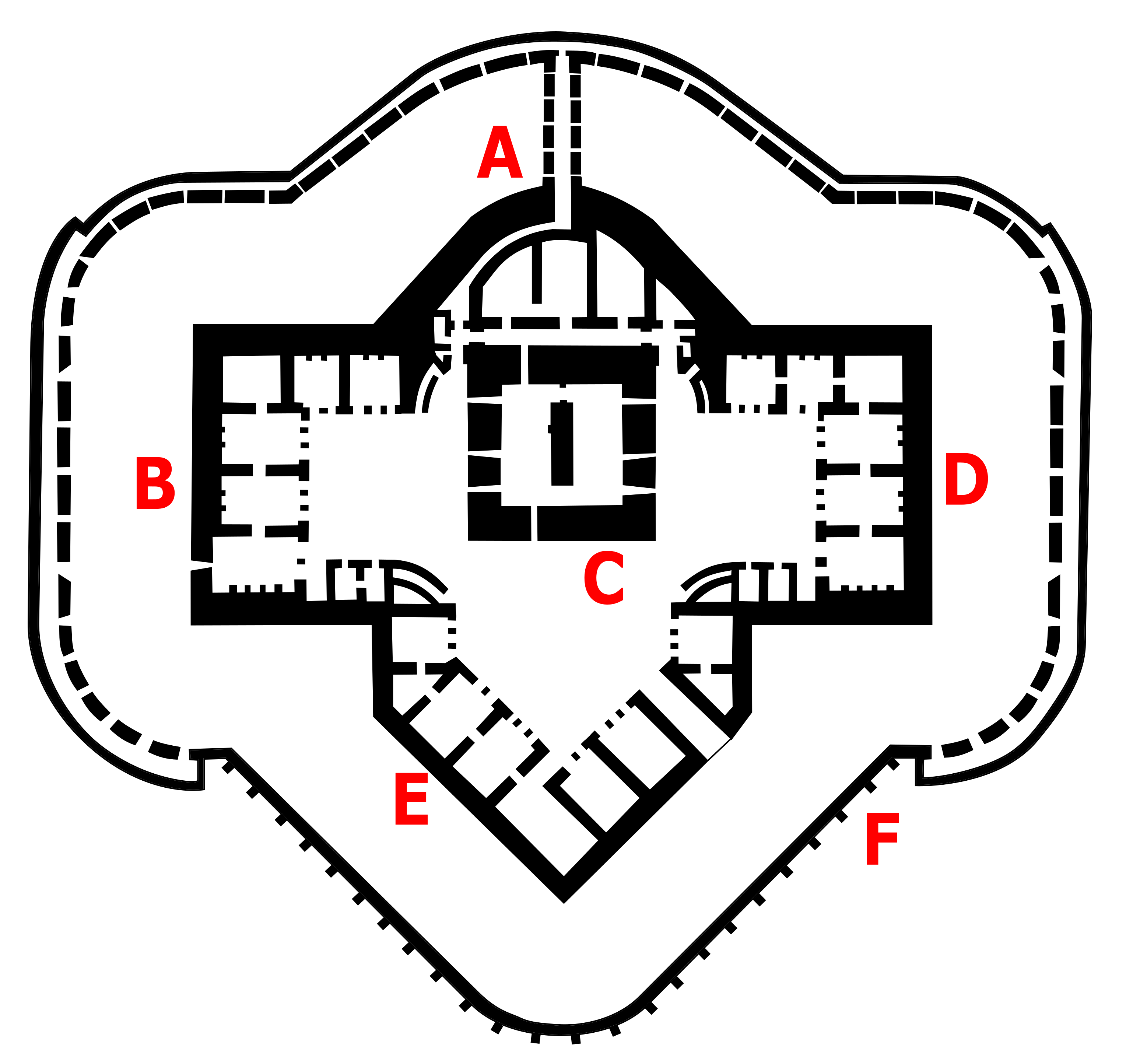 Southsea Castle - early 19th century; after 19th century War Office plan